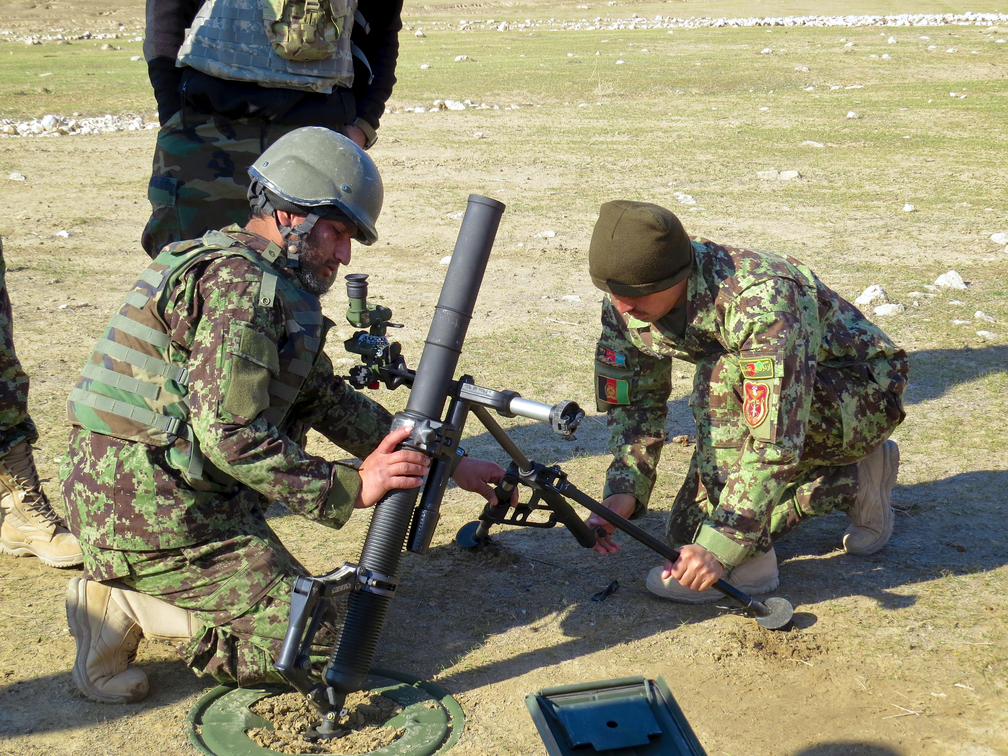 Afghan National Army soldiers adjust an M224 60 mm mortar system during training in Baghlan province, Afghanistan, Dec. 23, 2013.